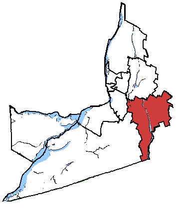 Map of Saint-Jean, Quebec